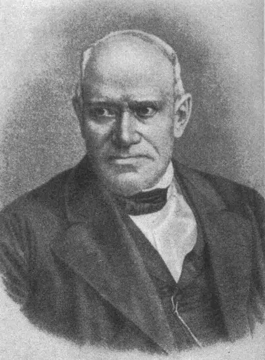 Photo of german chess master Adolf Anderssen